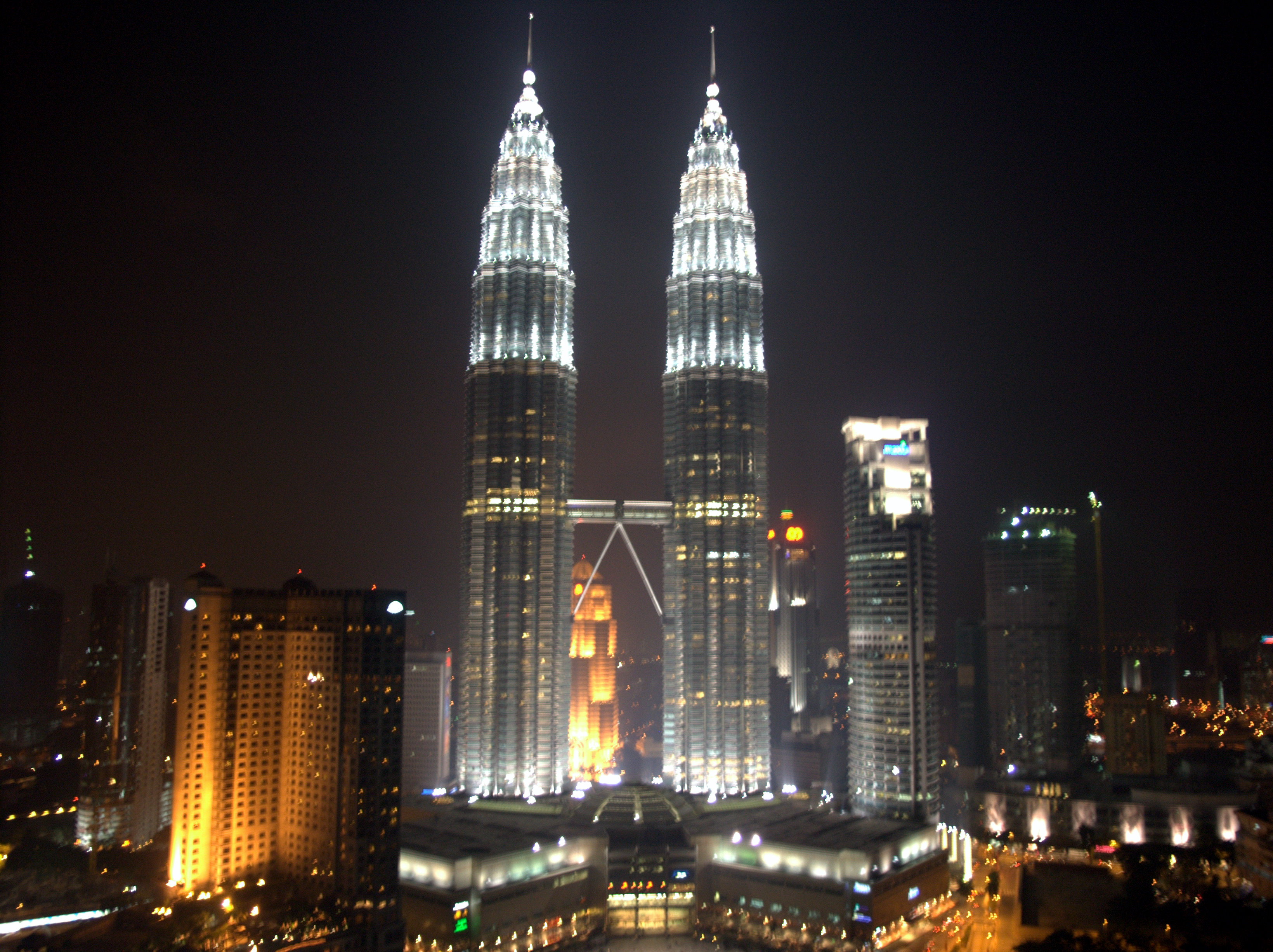 Petronas Towers at night. Kuala Lumpur, Malaysia.